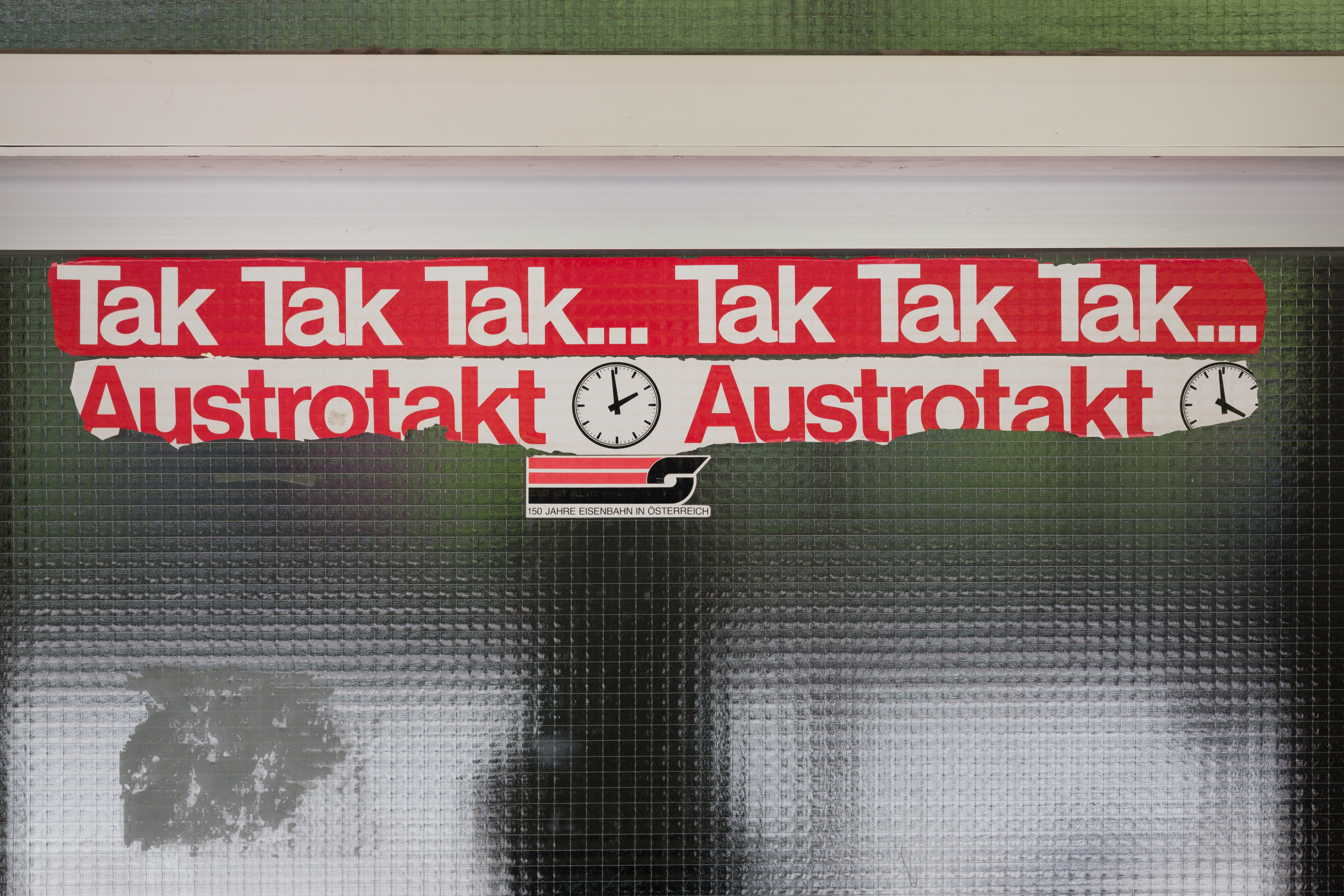 A plaquette advertising the Austrotakt